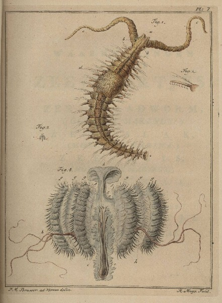 Polydora ciliata and Callianira hexagona